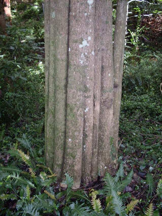 Cryptocarya microneura, trunk, at Cumberland State Forest, Australia